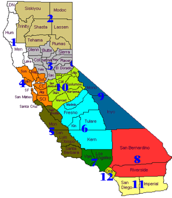 Map of California Department of Transportation districts